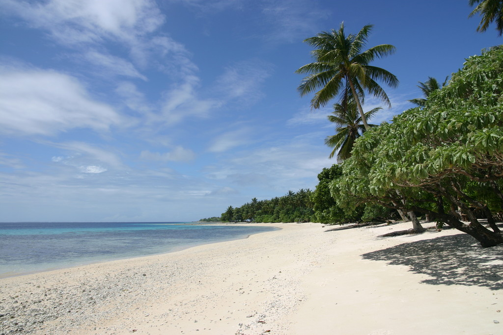 Eneko Island beach, Eneko Island.